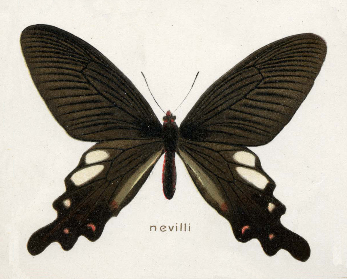 Nevill's Windmill, upperwing